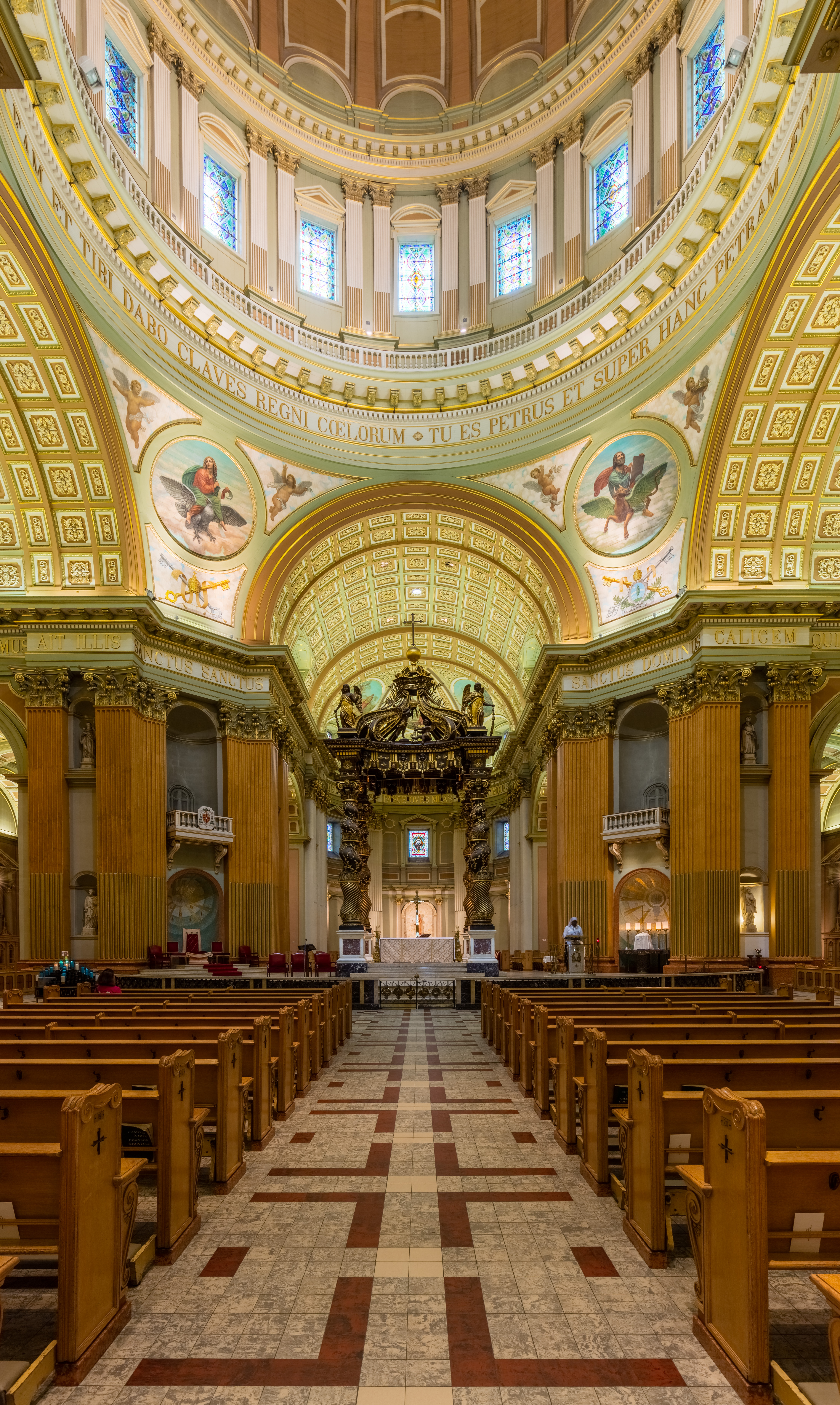 Cathedral-Basilica of Mary, Queen of the World, Montreal, Canada